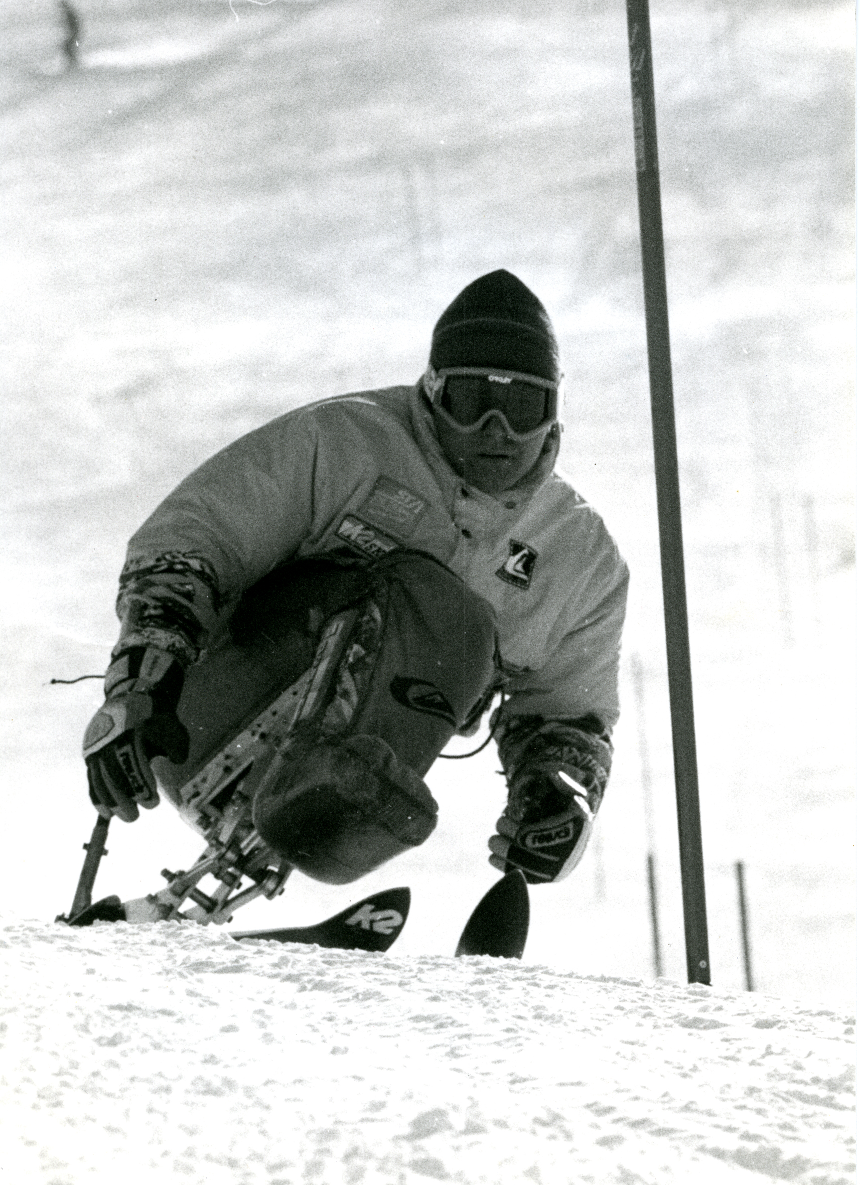 Australian Paralympian Michael Norton